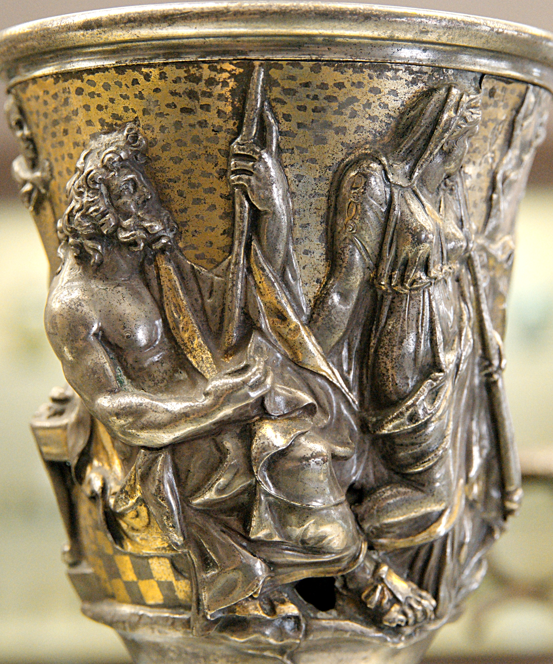 Seated Poseidon and the other Isthmian gods with a goddess, detail of a cup dedicated to Mercury by Quintus Domitius Tutus. Repoussé silver with gold, Italy, middle 1st century AD. From the Berthouville treasure, 1830.